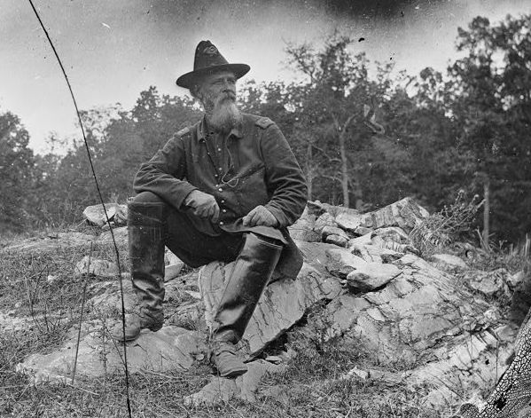 Antietam, Maryland. Col. Turner G. Morehead, 106th Pennsylvania Volunteers